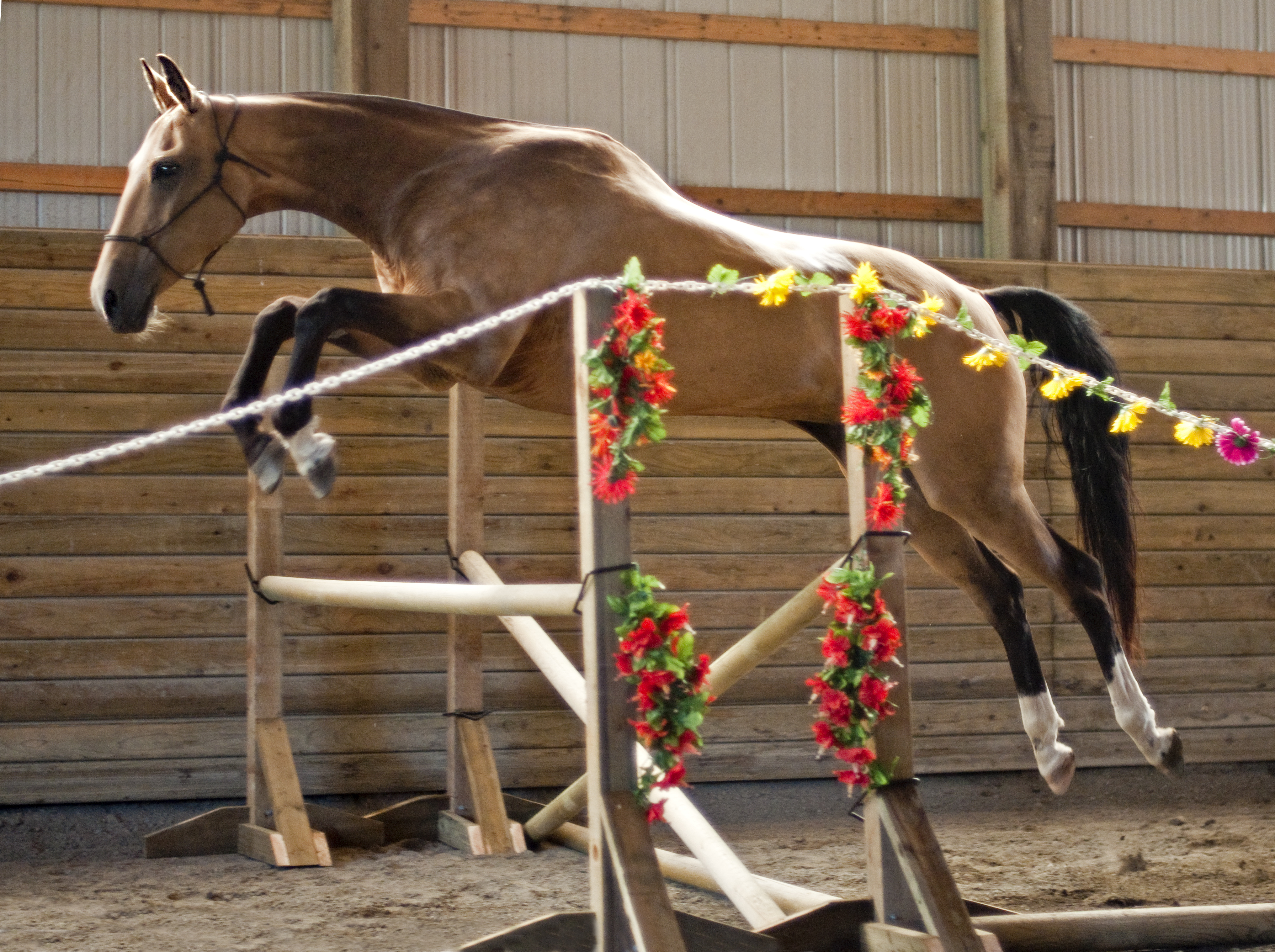 Farpoint Farms/Hobbit Hollows Open House and Free Jumping Competition, Akhal Theke mare Darkinka